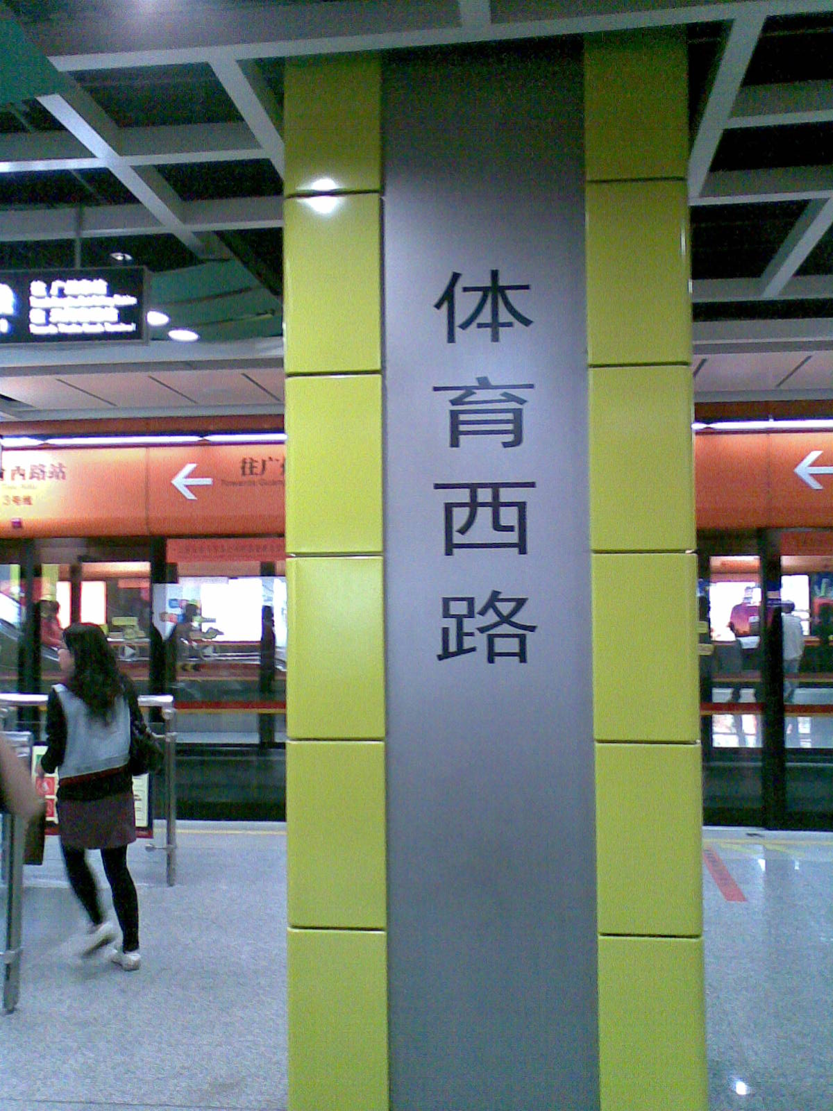 Platform of Tiyu Xilu Station, Guangzhou, China